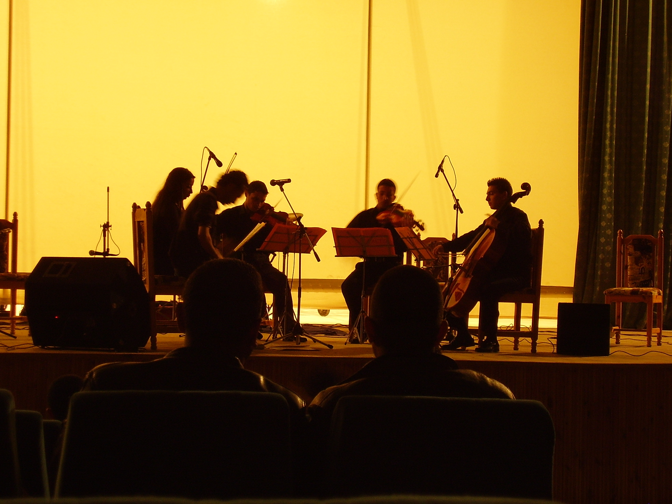 A concert in the House of culture "Taos Amrouche" of Béjaïa, Algeria